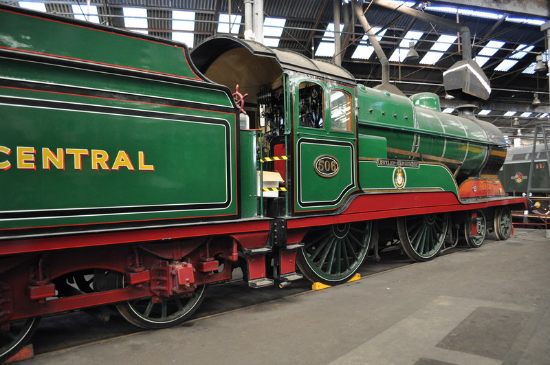 Barrow Hill - Butler Henderson, near to Brimington, Derbyshire, Great Britain. The Great Central railway 'improved director'. See Link Long term loan to Barrow hill roundhouse.